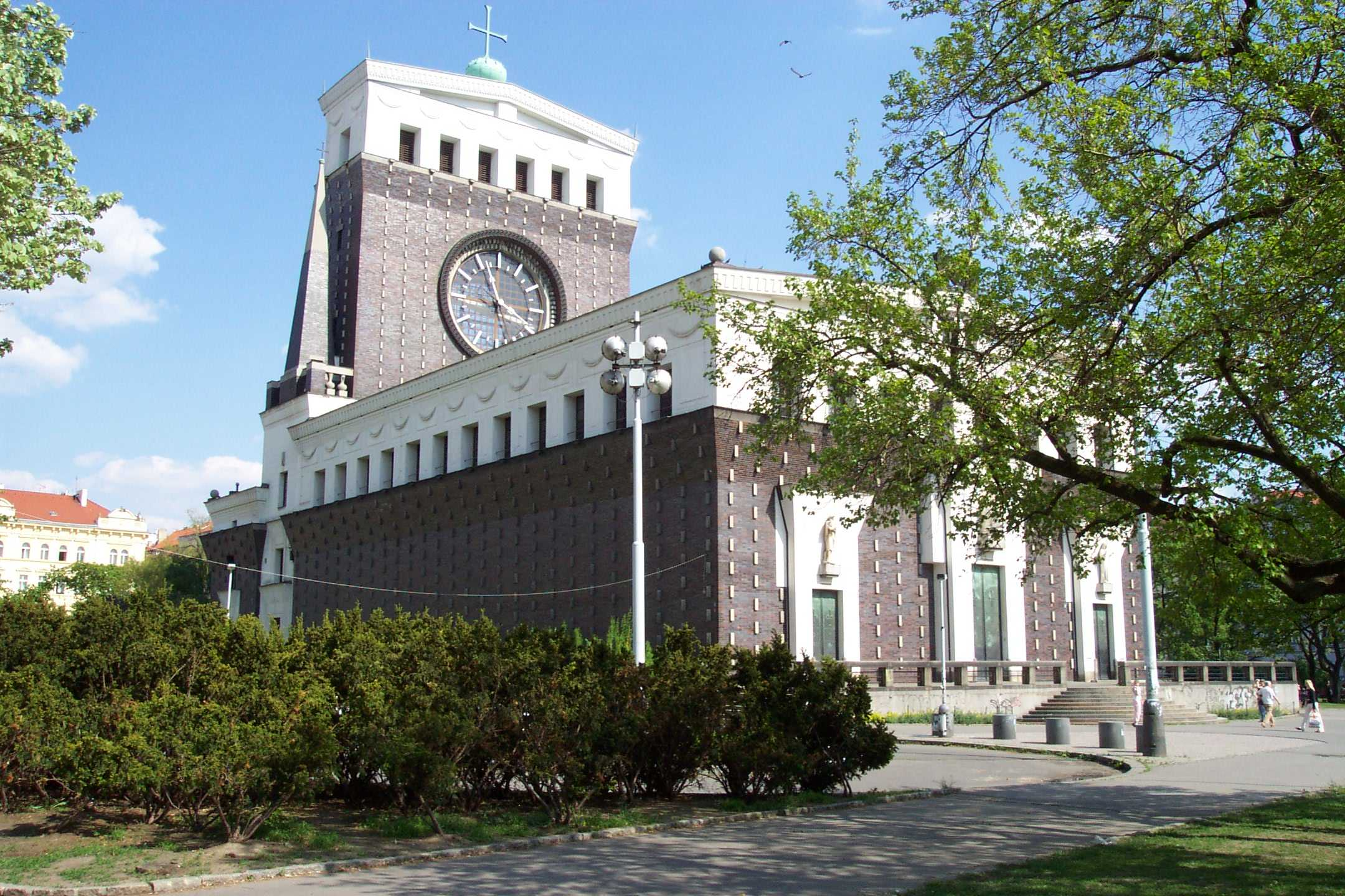 Church at Square Jiřího z Poděbrad, Prague